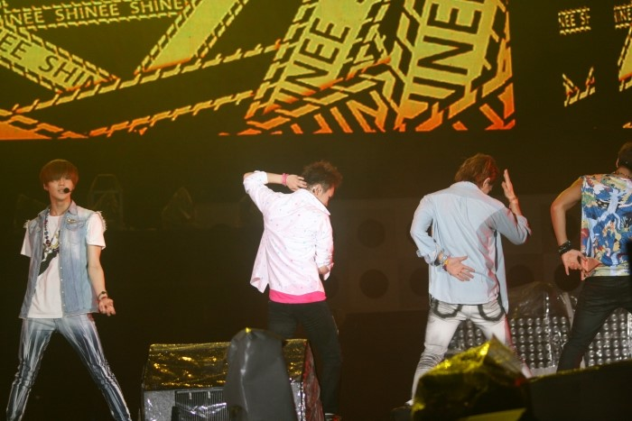 Shinee at the Pop Festival Expo in Yeosu on July 13, 2012.